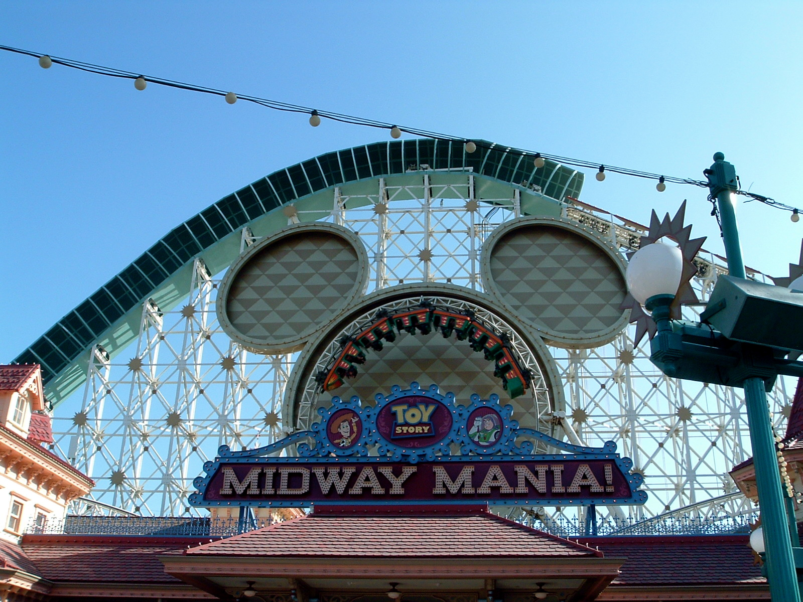 Entrance to Toy Story Midway Mania! at Disney's California Adventure